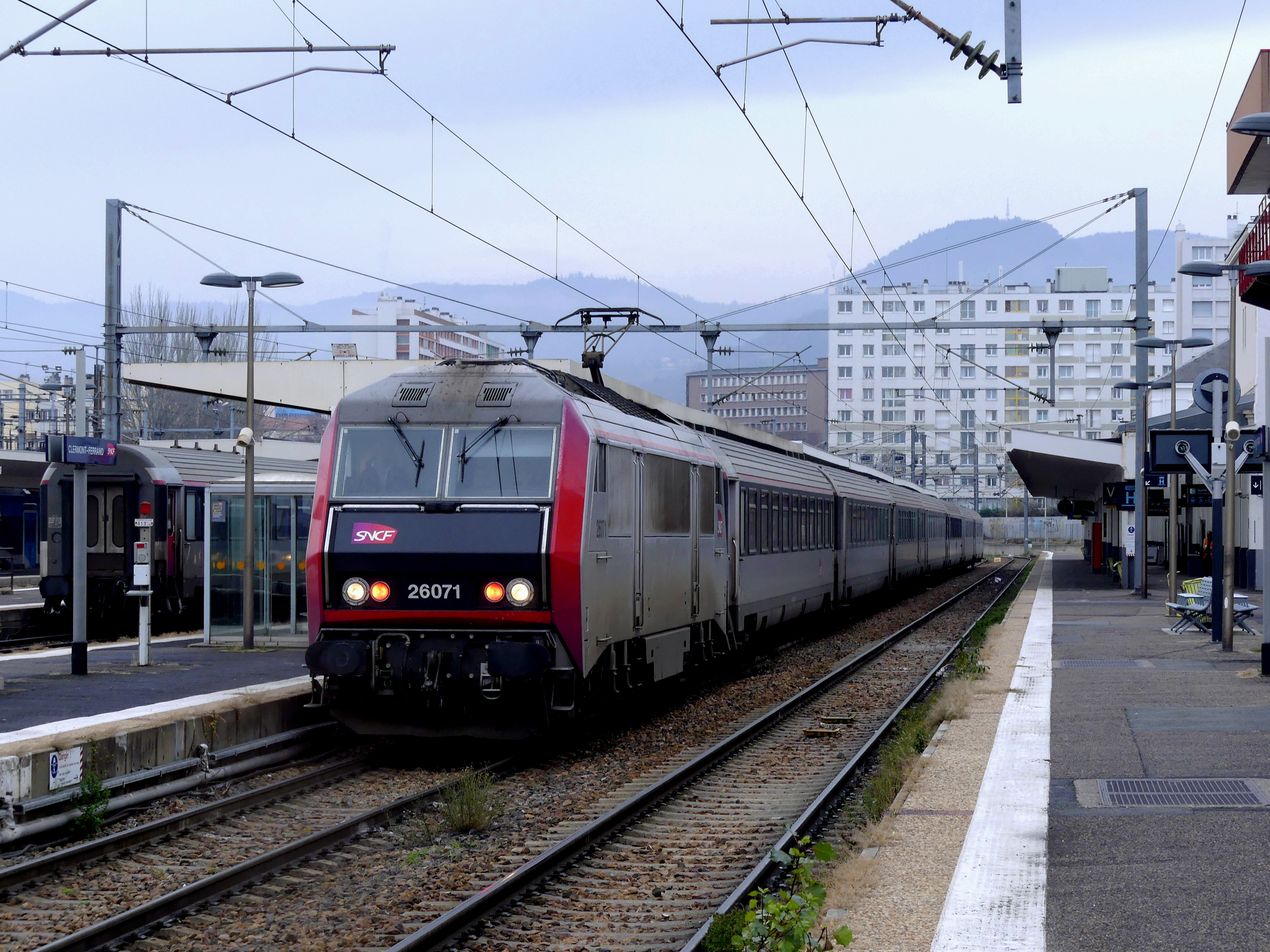 Sight of the French 'Intercités' train n°5970 pulled by a SNCF Class BB 26000 leaving Clermont-Ferrand and bound for Paris, in Puy-de-Dôme.